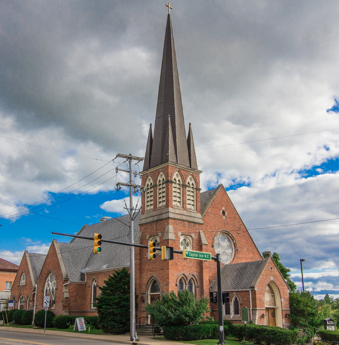 100px